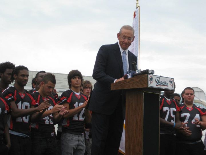 Stephen M. Ross at his alma matter Miami Beach Senior High